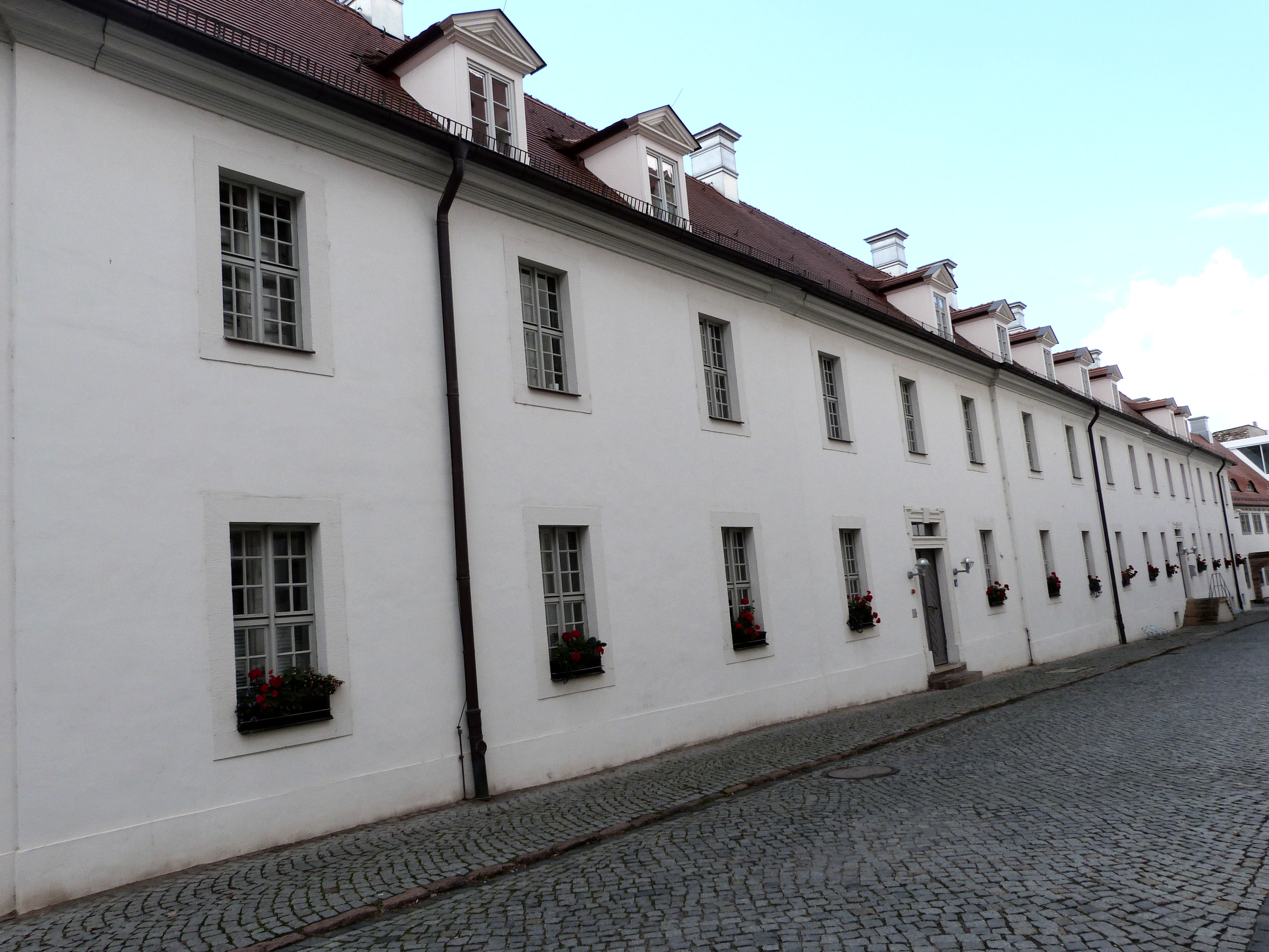 Houses 37-39, former bakery and brewery, today office of the Francke foundations, Halle (Saale)